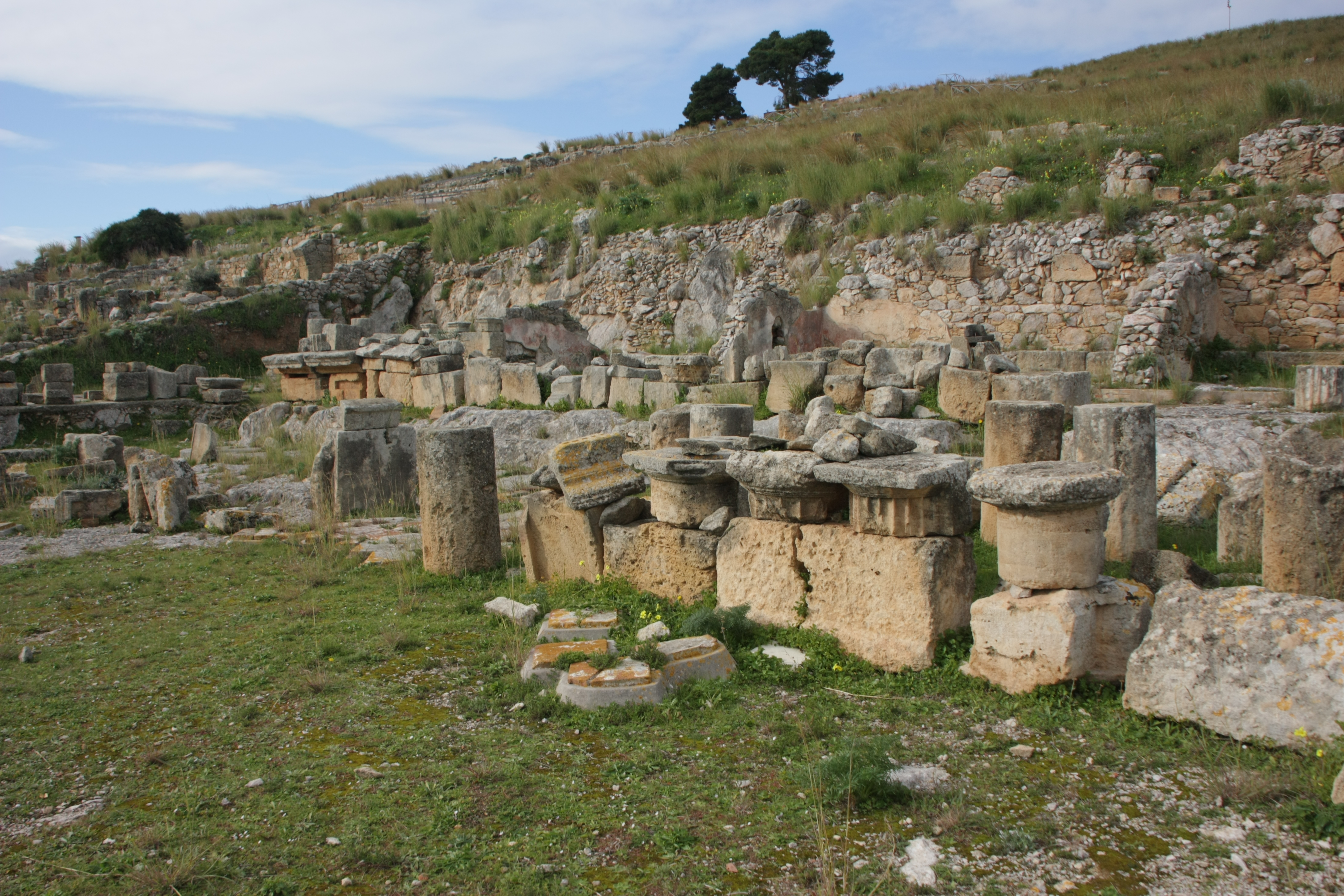 Stoa of solunto